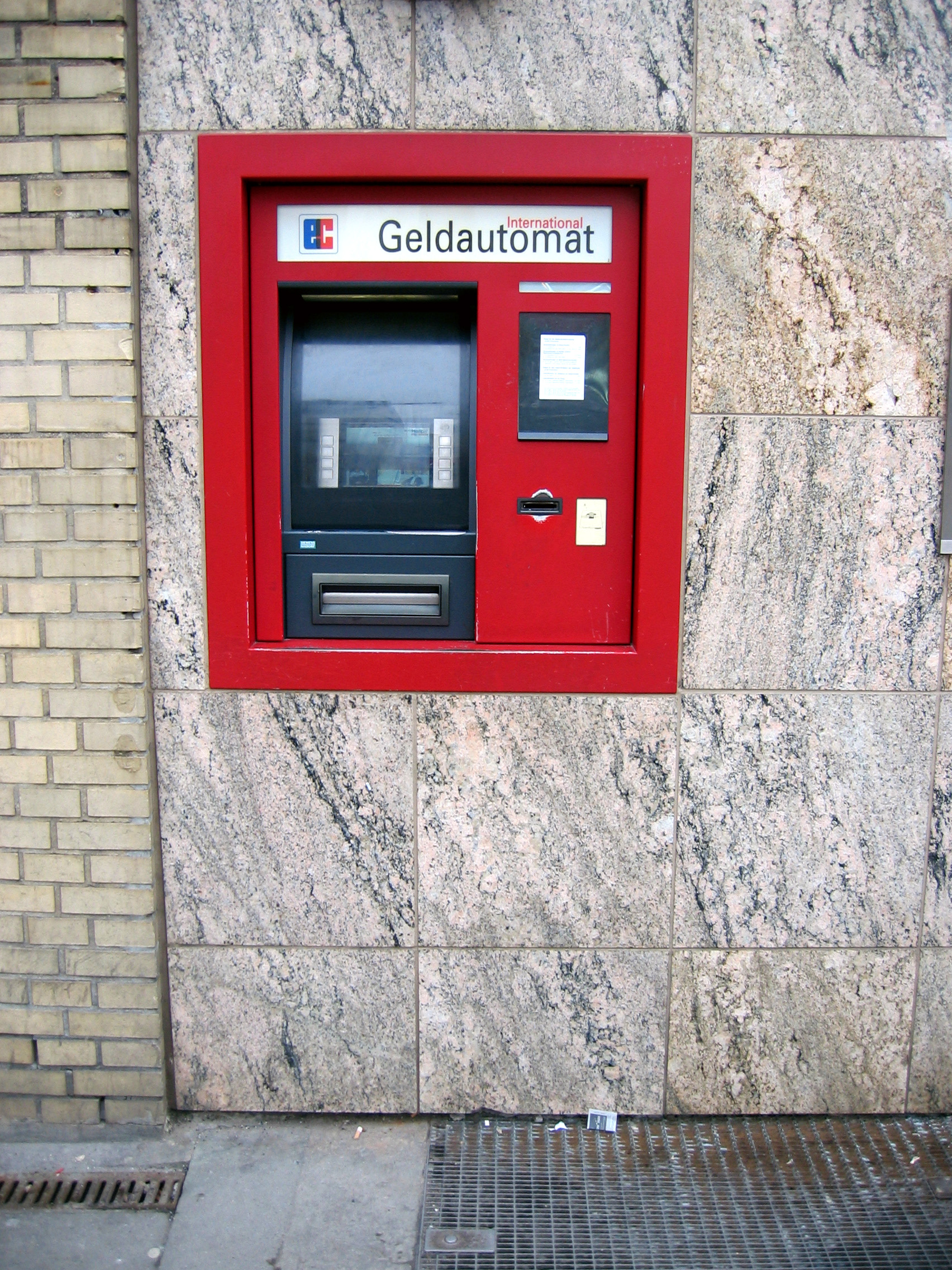 Automatic teller machine Hamburg Savings bank.